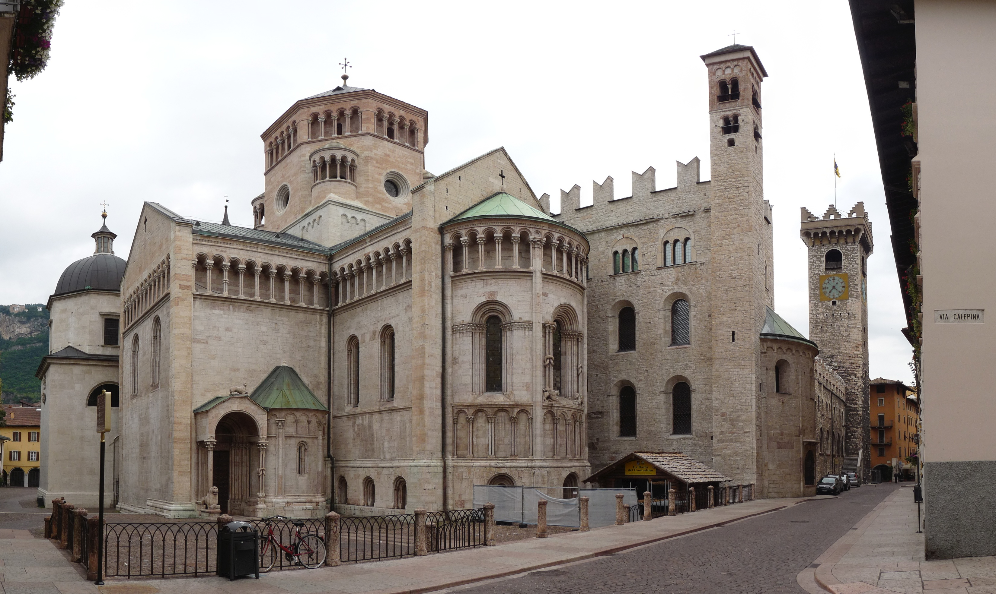 Trento (Italy): eastern side of the cathedral of Saint Vigilius, with the Saint Romedio church tower, the Castelletto del Vescovo and the Torre Civica (civic tower)